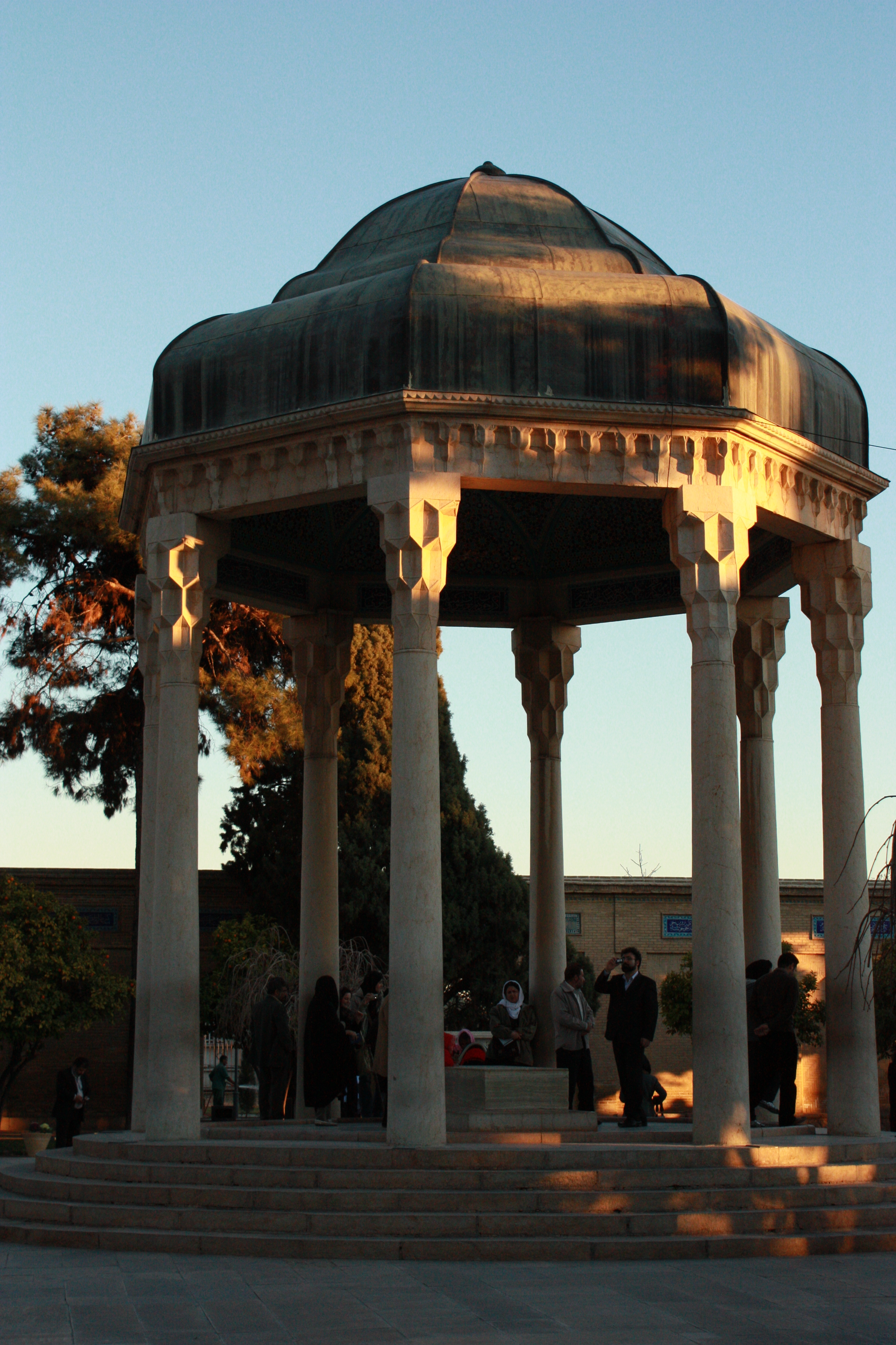 Tomb of Hafez in Shiraz